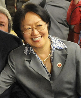 NYC Council Member Margaret Chin at the re-opening of Cortlandt Street station.